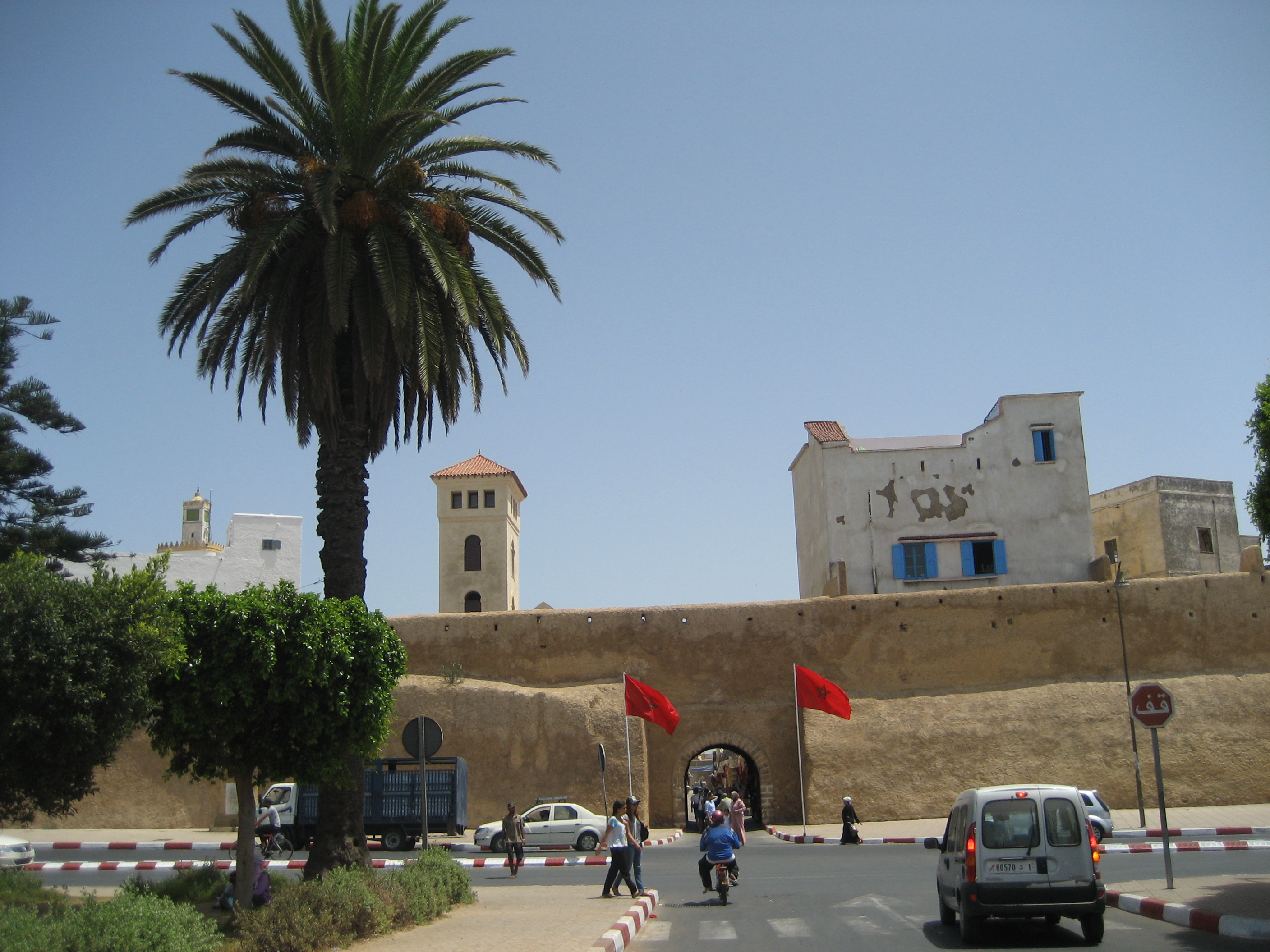 Ramparts and former catholic church in El Jadida (Morocco)